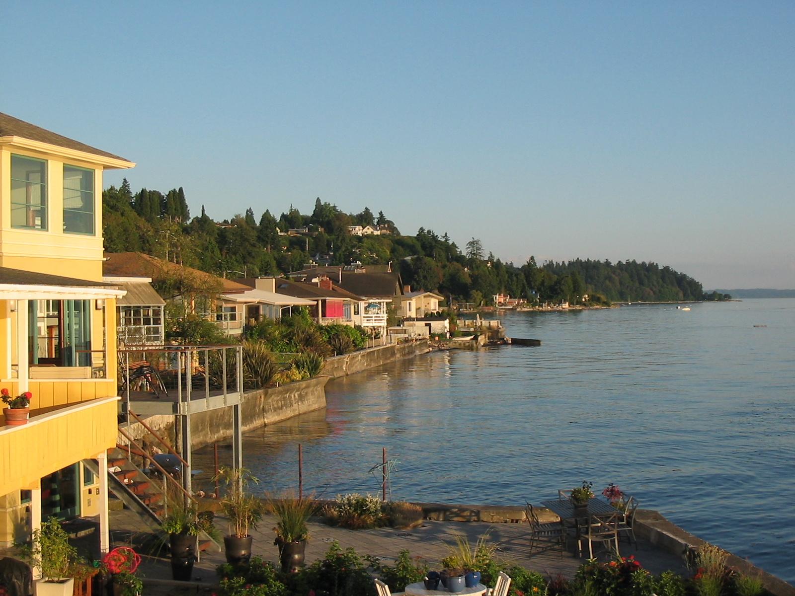 West Seattle, WA, 6/25/05